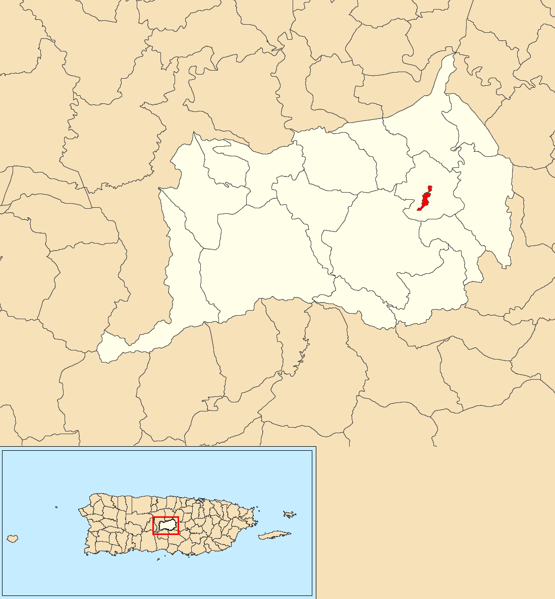 Orocovis barrio-pueblo, Orocovis, Puerto Rico locator map